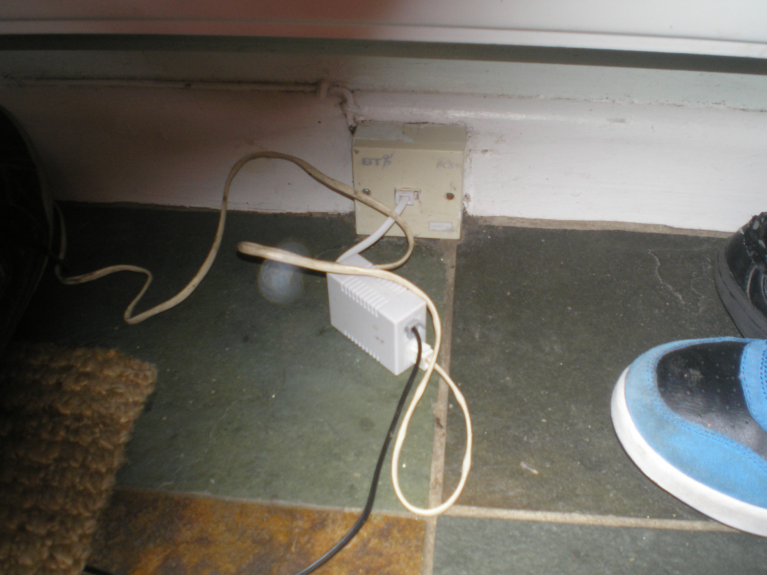 An ADSL filter